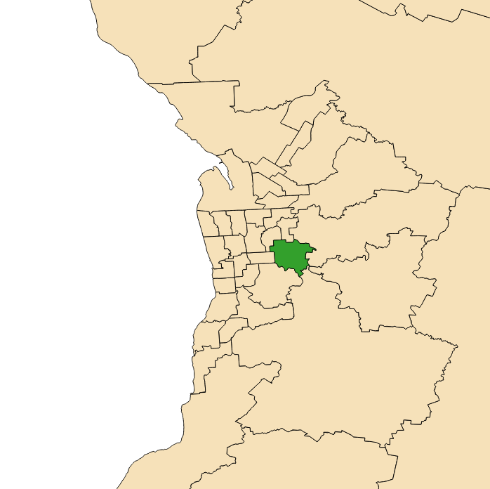 Electoral district 2018 boundaries shown in green